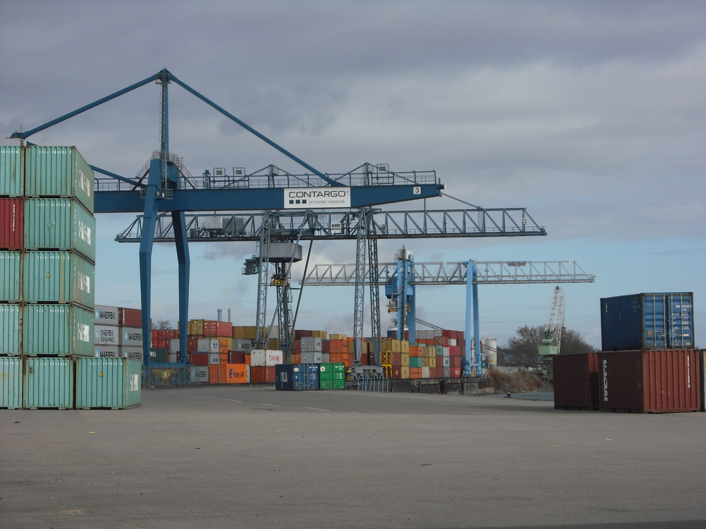 Woerth harbour 2